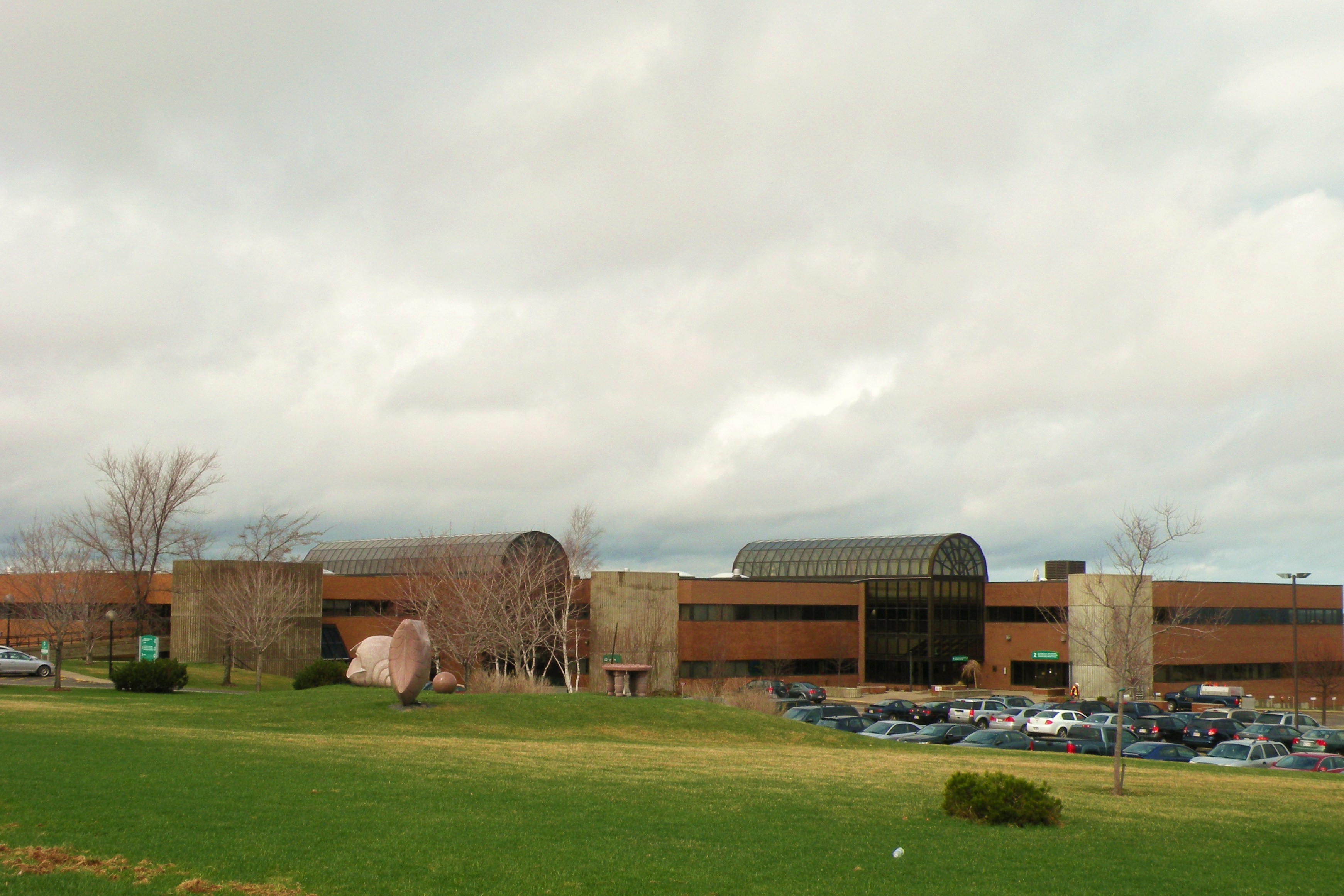 Place de l'Acadie in Caraquet, New Brunswick, Canada.